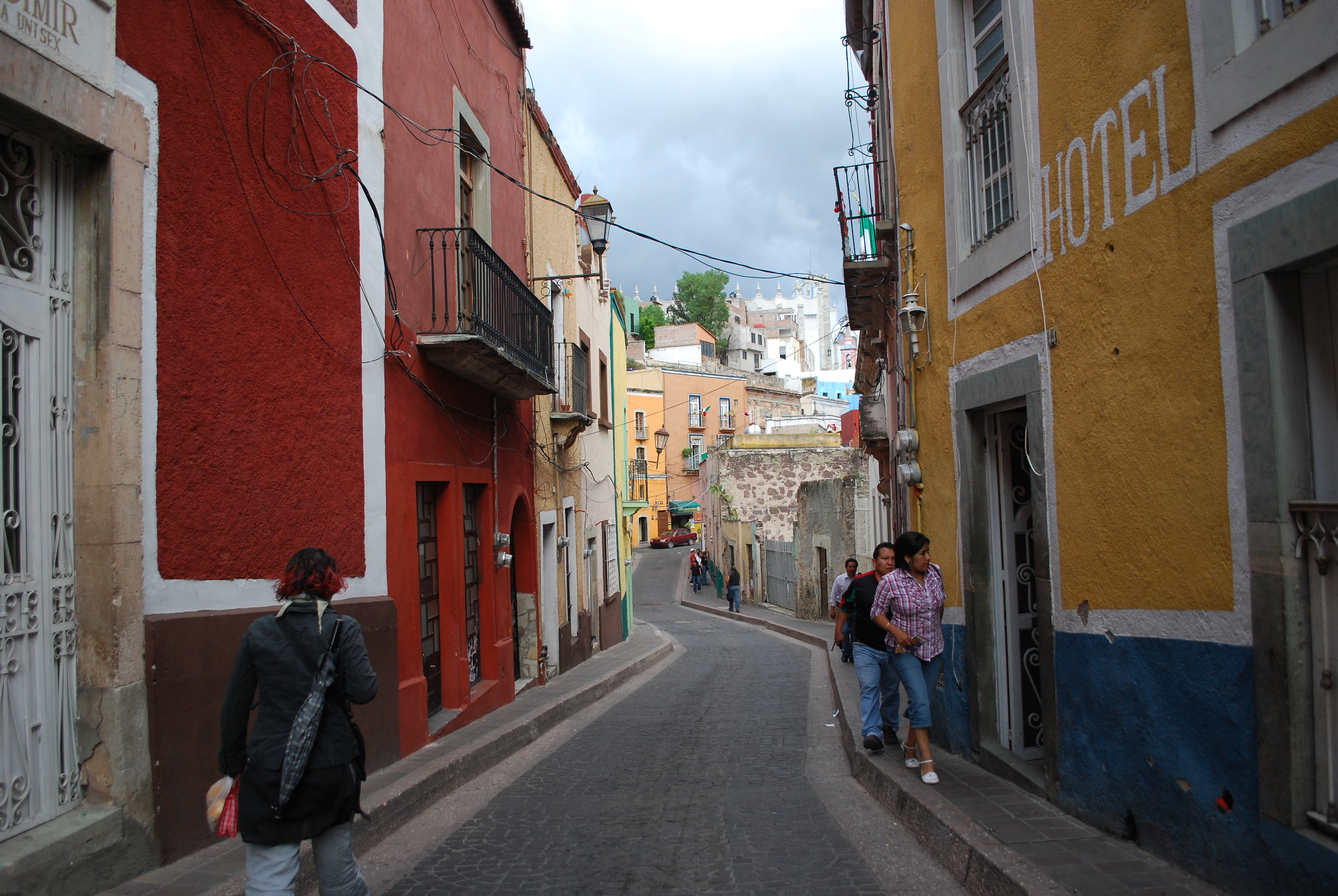 Positos Street looking towards the university in the city of Guanajuato, Mexico